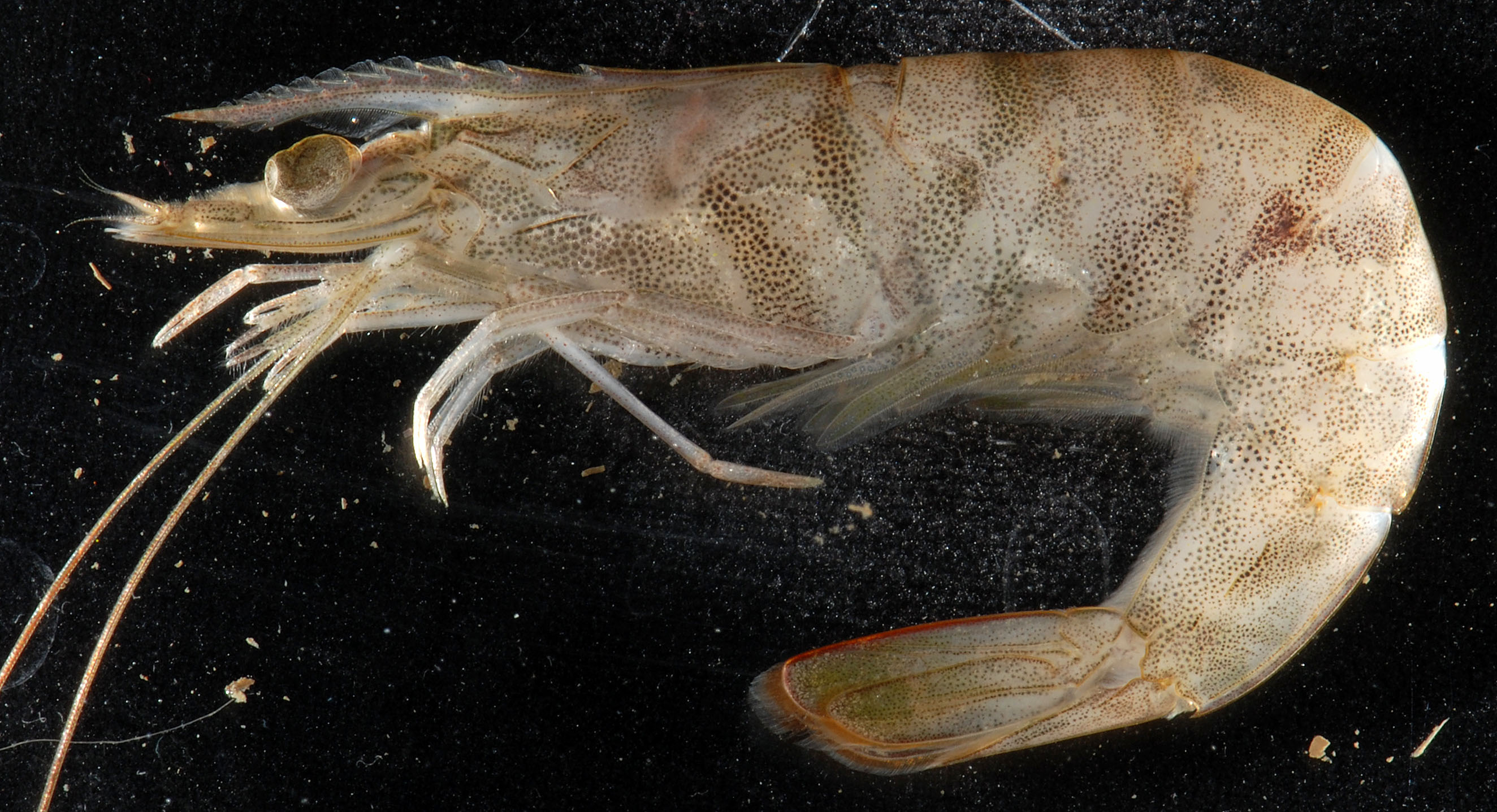 Penaeus duorarum, pink shrimp, 77mm TL. Pungoteague Creek, Accomack County, VA - 10/15/15. Photo ByRobert Aguilar, Smithsonian Environmental Research Center.